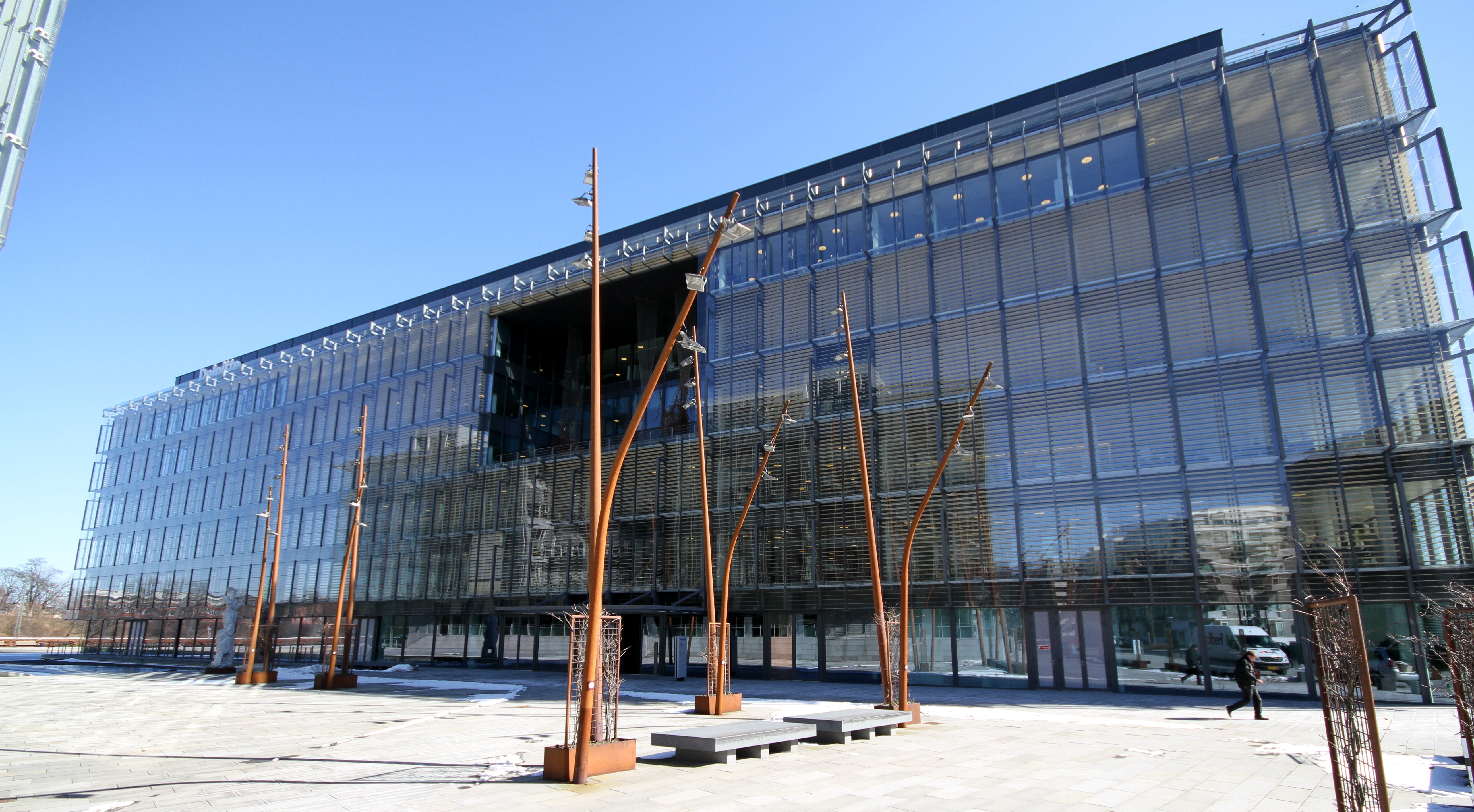 Building at Ny Tøjhusgrunden in Copenhagen)